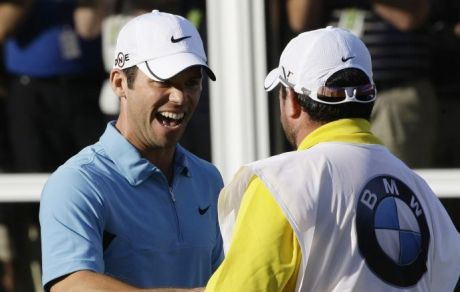 Paul Casey winner of the PGA Championship at Wentworth